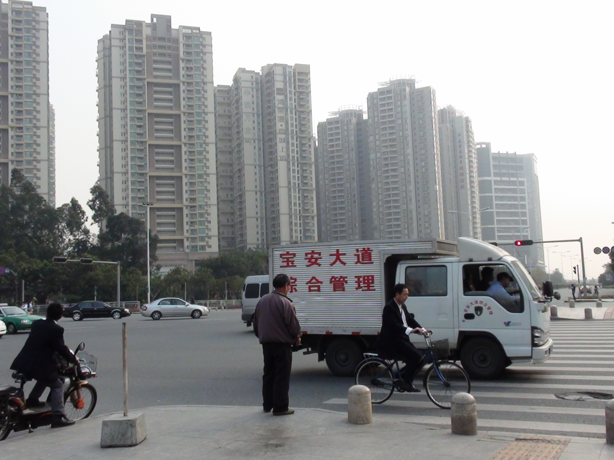 Baoan downtown, Shenzhen, Guangdong, China